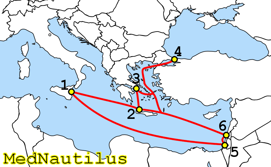 Route of the MedNautilus Submarine communications cable. For more information on the Numbered Landing points, see Main article.